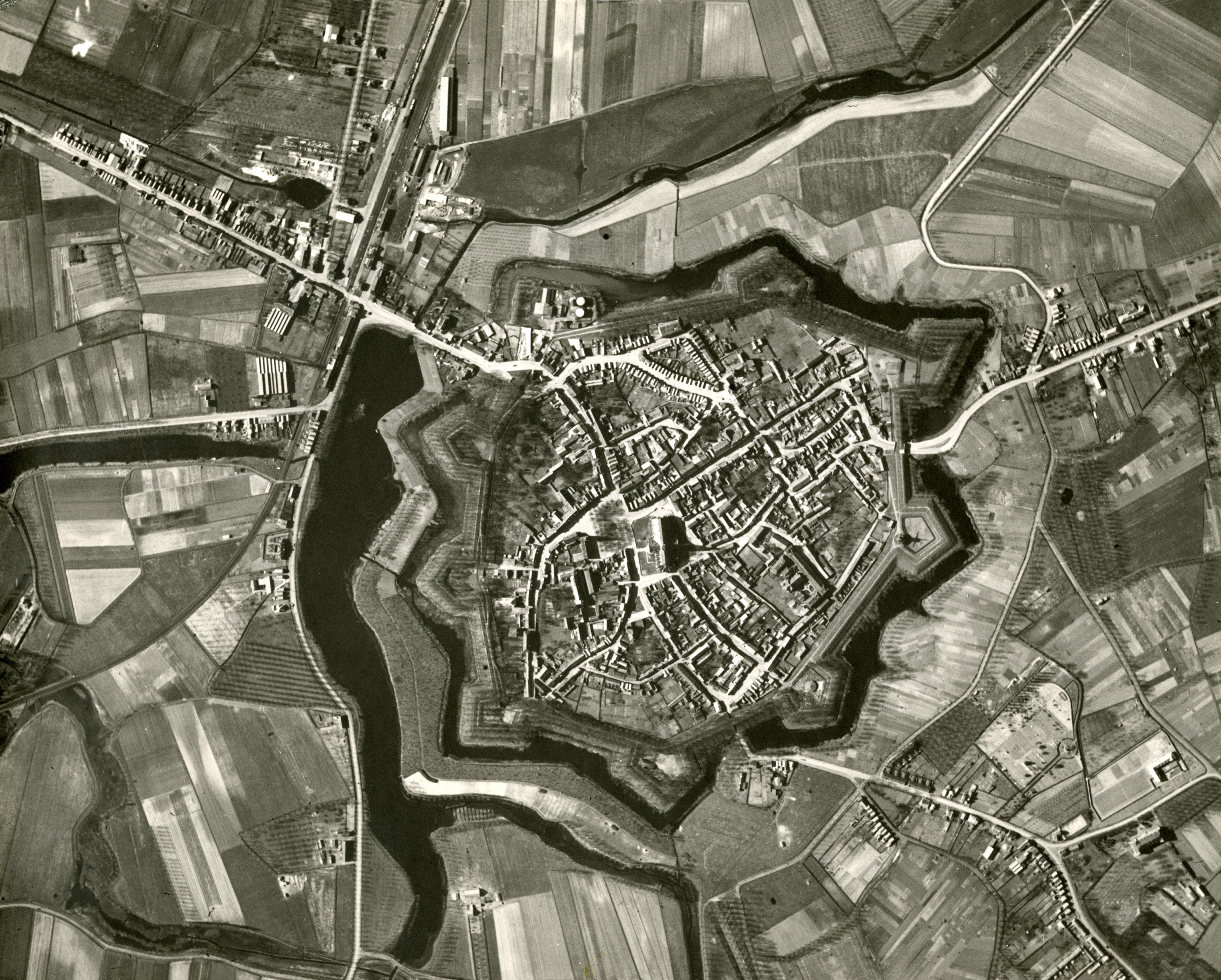 Aerial photograph of Hulst, The Netherlands.